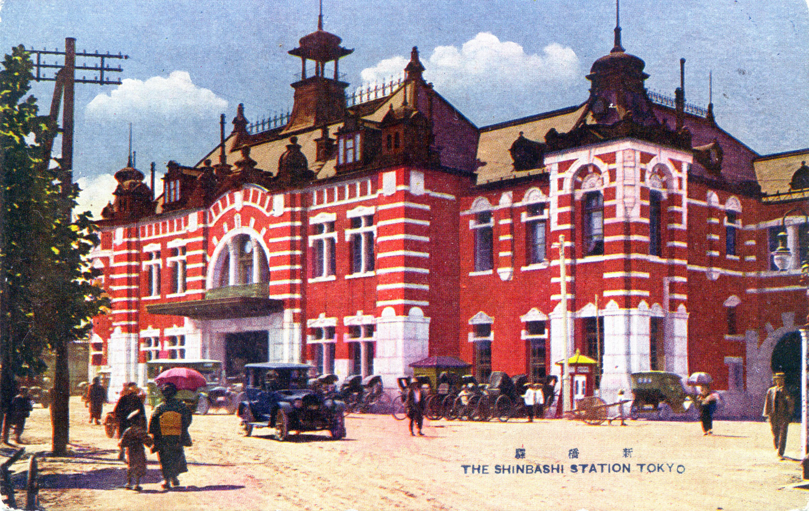 Japanese post card of Shinbashi Station in Tokyo